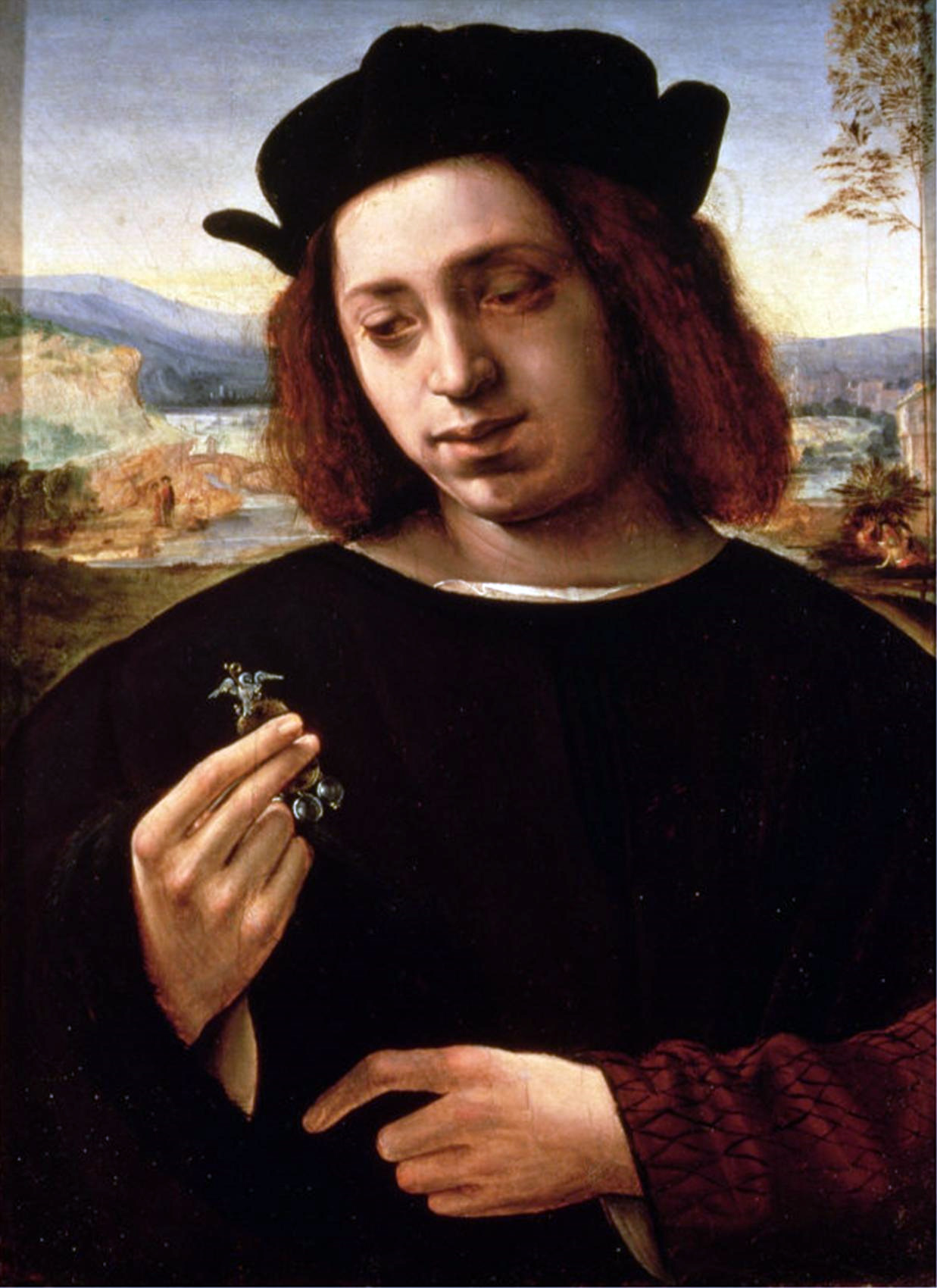 Portrait of a Man, or the Jeweller